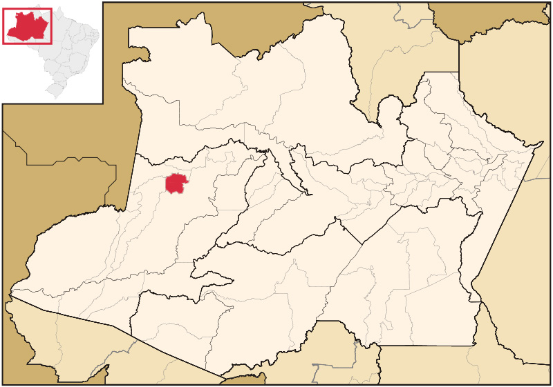 Map of Amazonas highlighting Amaturá.